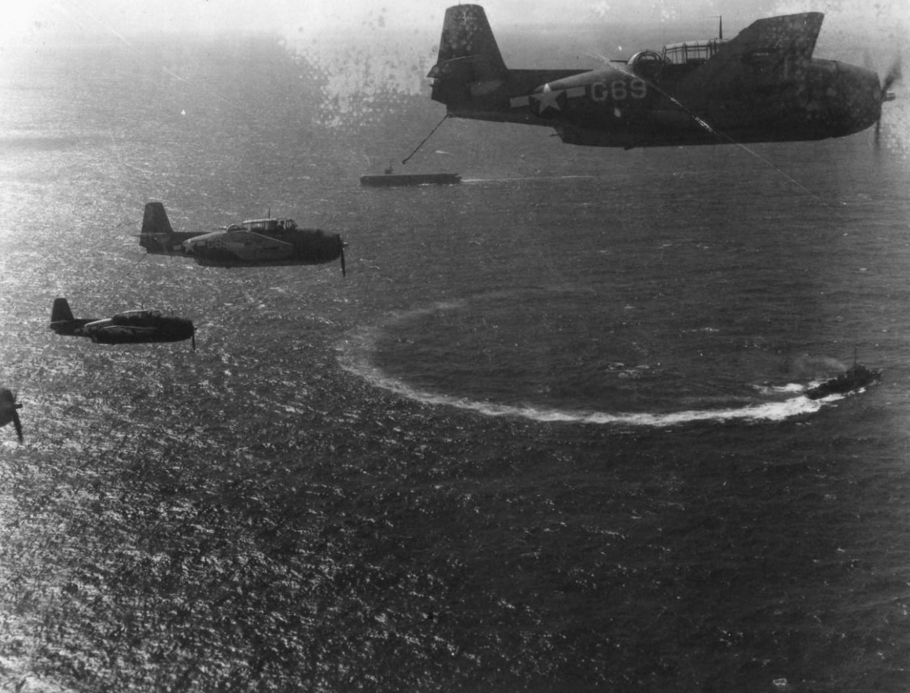 U.S. Navy Grumman TBF Avengers in flight over the escort carrier USS Shipley Bay (CVE-85) and a destroyer in 1944-1945.